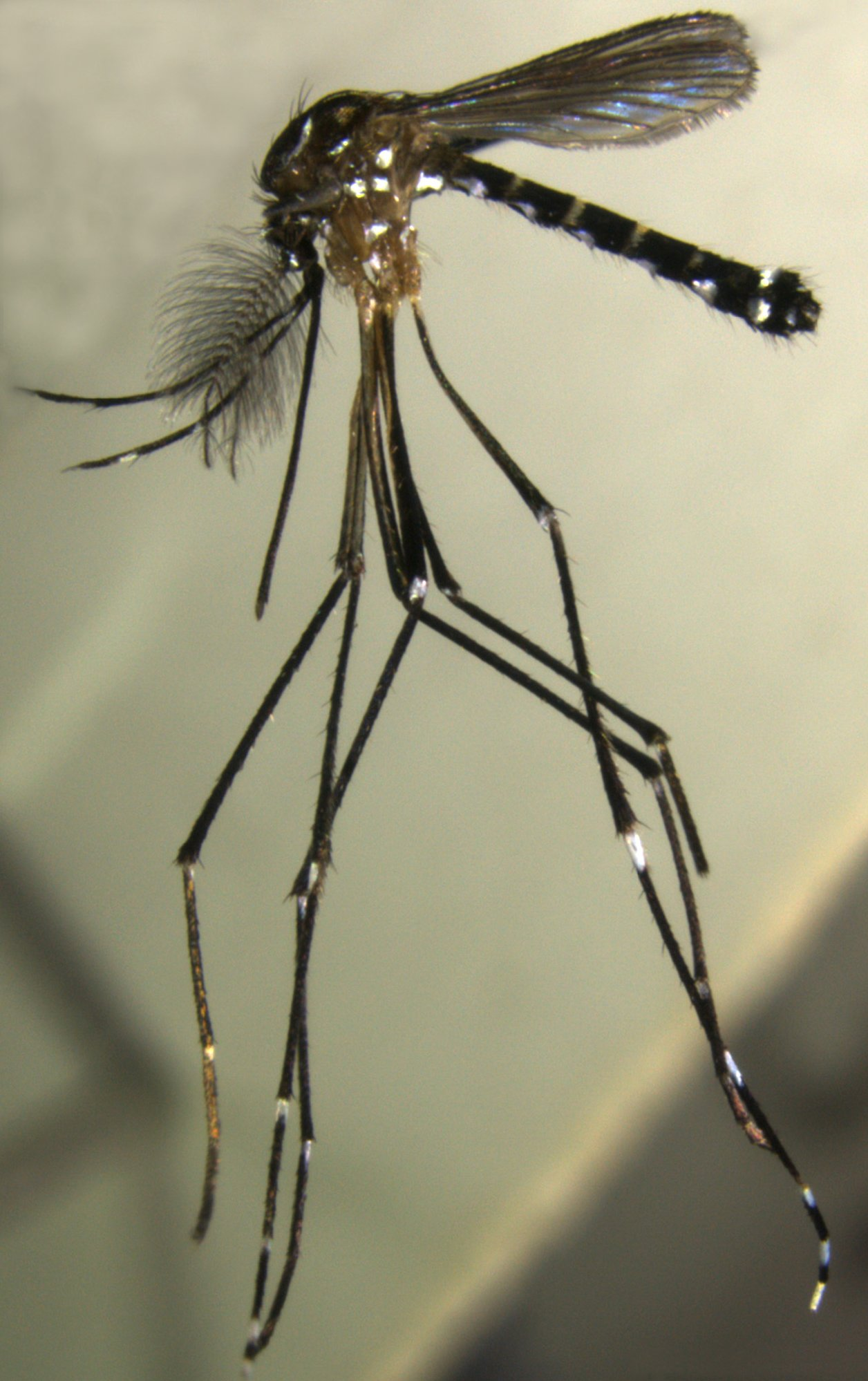 Stegomyia pia Le Goff & Robert, 2013, a species of mosquito from Mayotte (Indian Ocean). Part of Figure 2 from article. Stegomyia pia: A, a male (lateral view)(Male specimen MY 085). (Whole Figure 2 is also available)